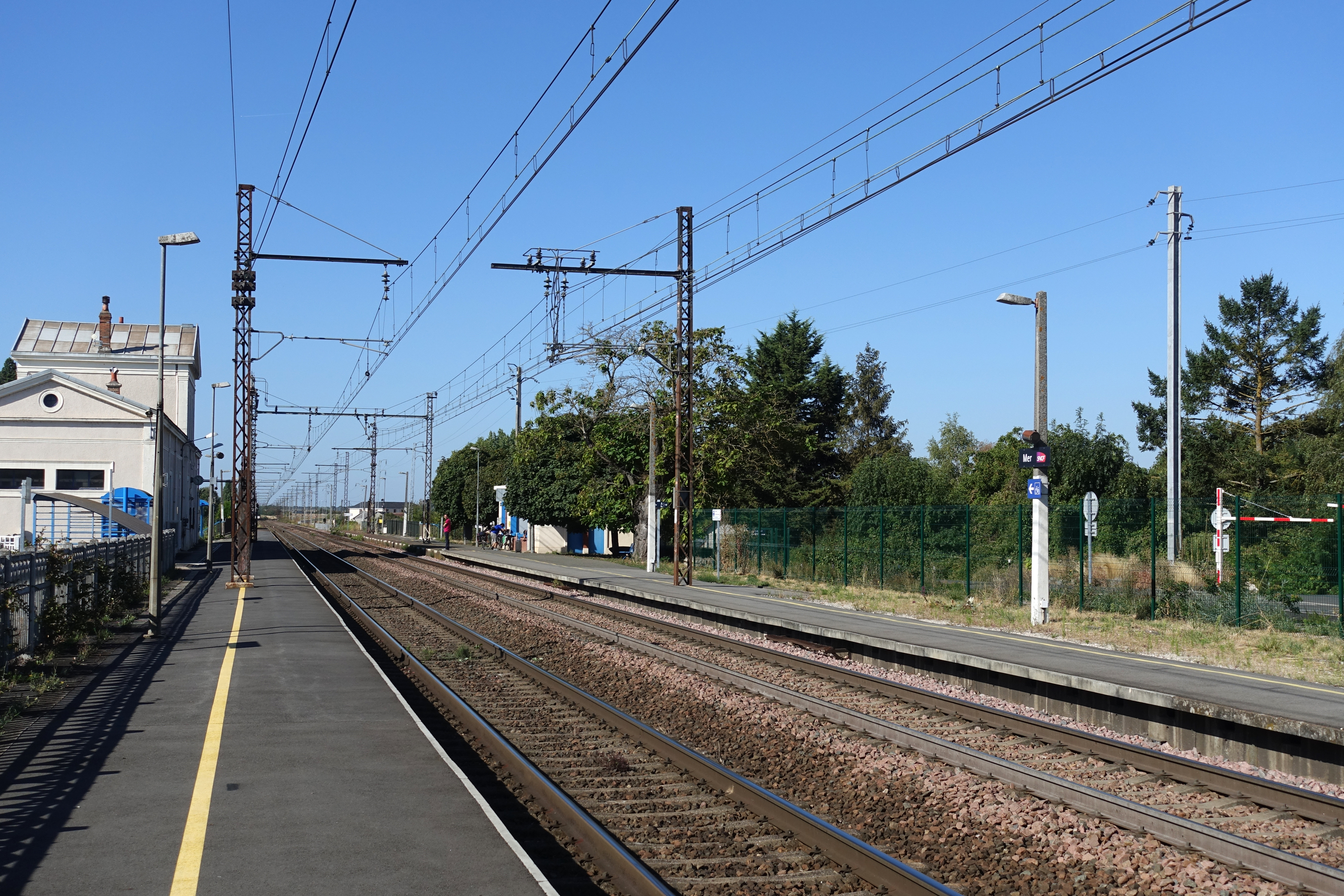 Platforms of Mer station, France